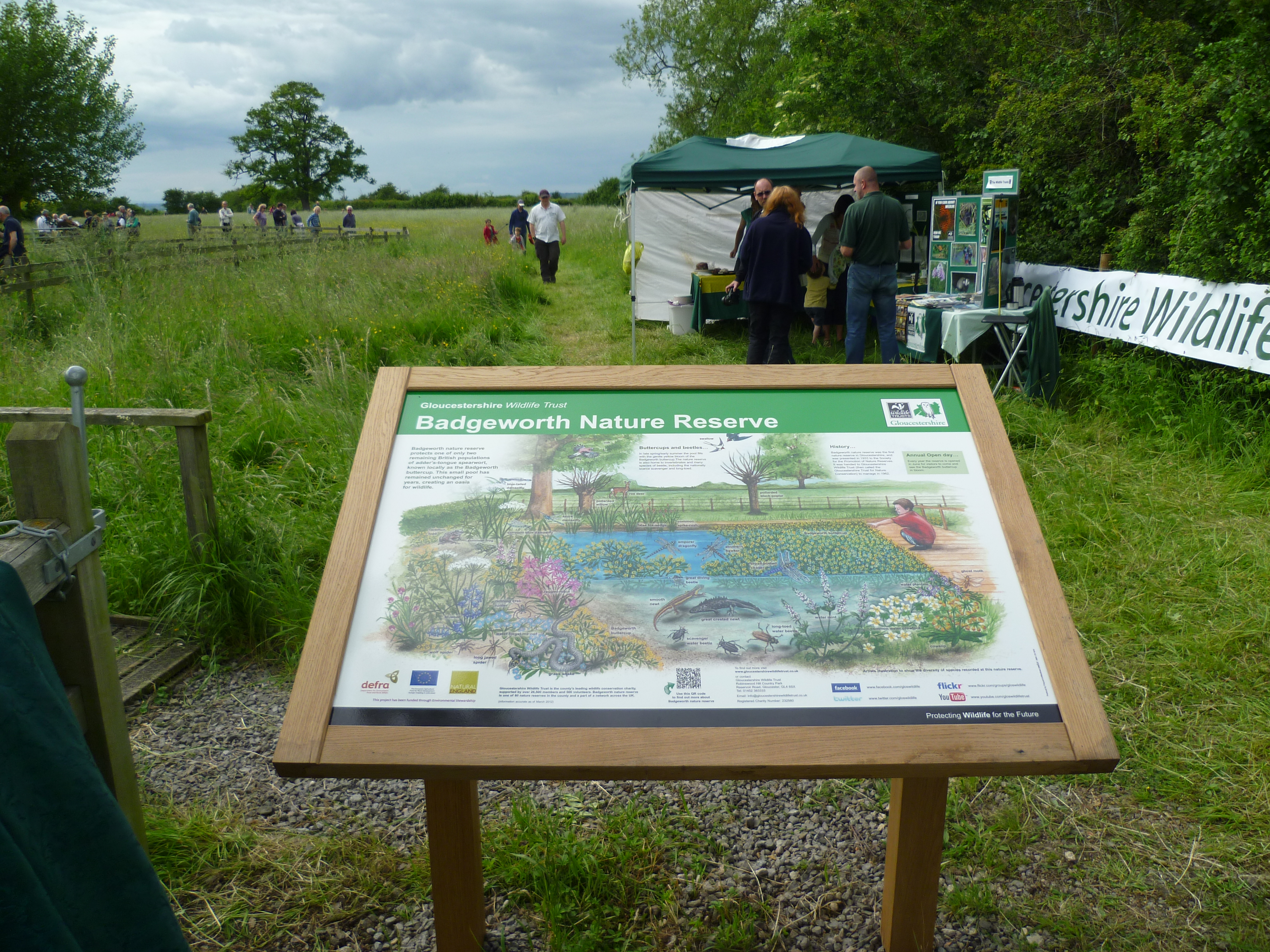 View from the entrance to the Badgeworth nature reserve, Gloucestershire, England, during its annual open day 2012.